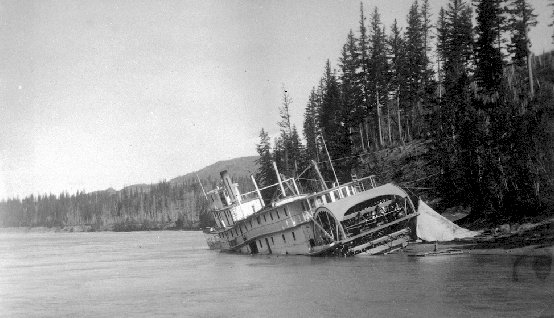 Photographer:Unknown Photo taken: 1919 Source: BC Archives #A-09848 [1]